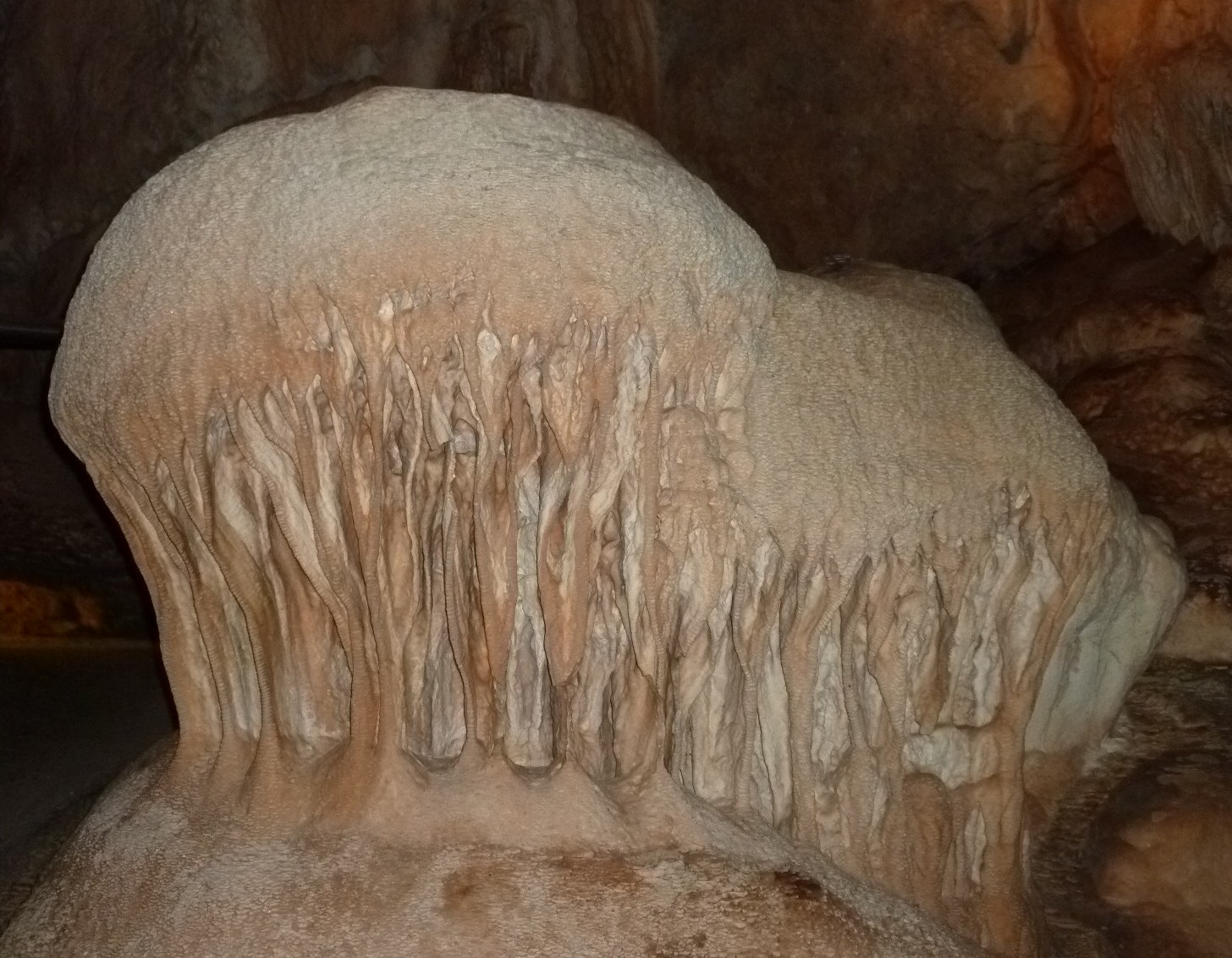 jelly fish formation (lucas tour)